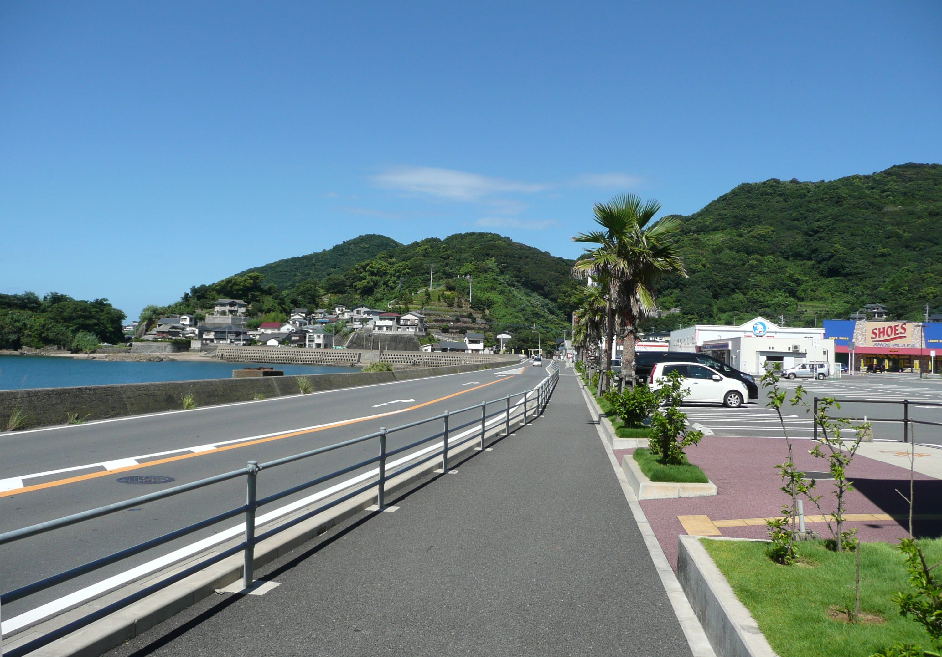 長崎市内を走る国道202号